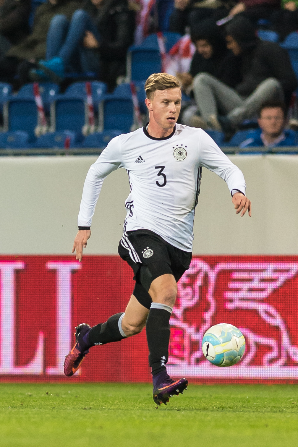 European Under-21 Championship 2017 Qualifying Round, Austria vs Germany, 11/10/2016, St. Polten